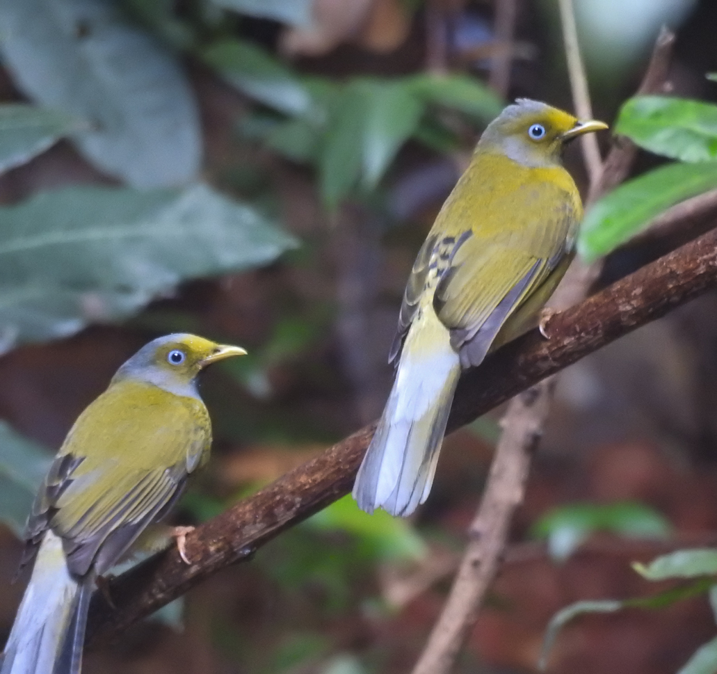 A pair of Grey-headed Bulbul from Udupi,Karnataka, India